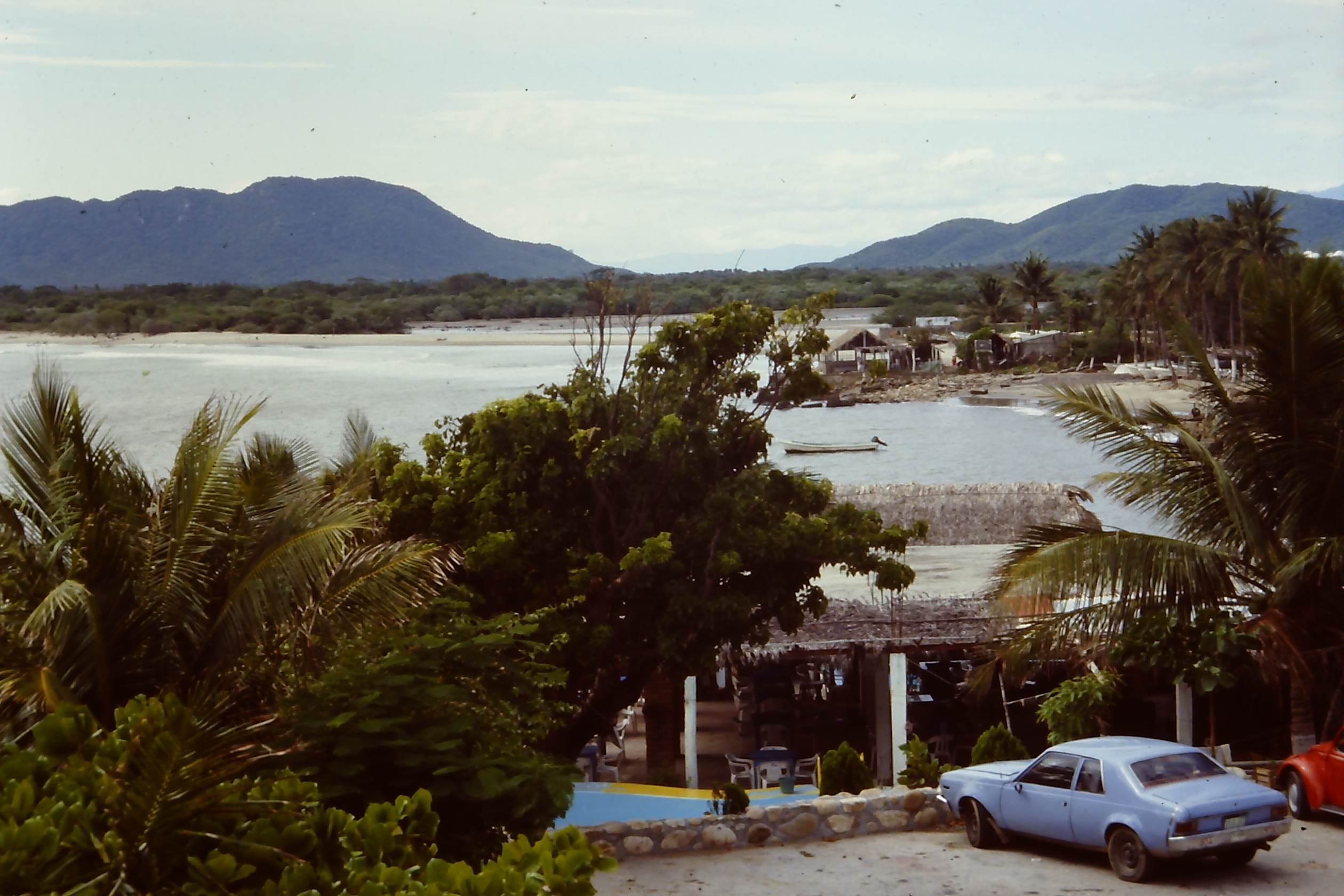 Salina Cruz, Mexico, Coastline, 1997